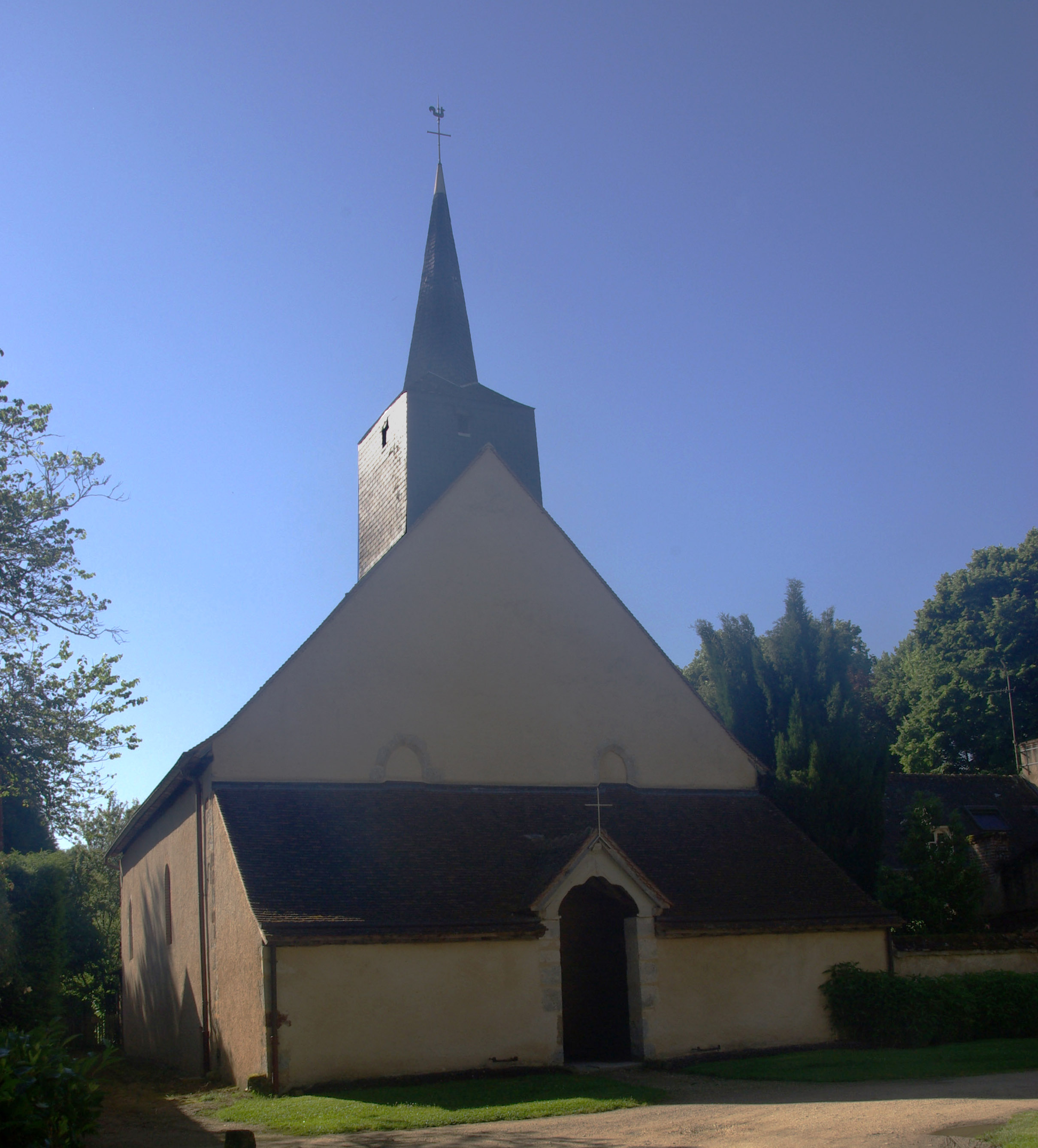 Church Brinay (18)